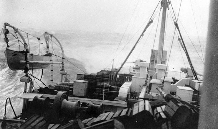 USS Kroonland (ID # 1541) View on board, looking aft, while she was steaming in heavy seas during a trans-Atlantic passage, circa March 1919. Note the crates piled on deck, and whaleboat on davits at left. U.S. Naval Historical Center Photograph.